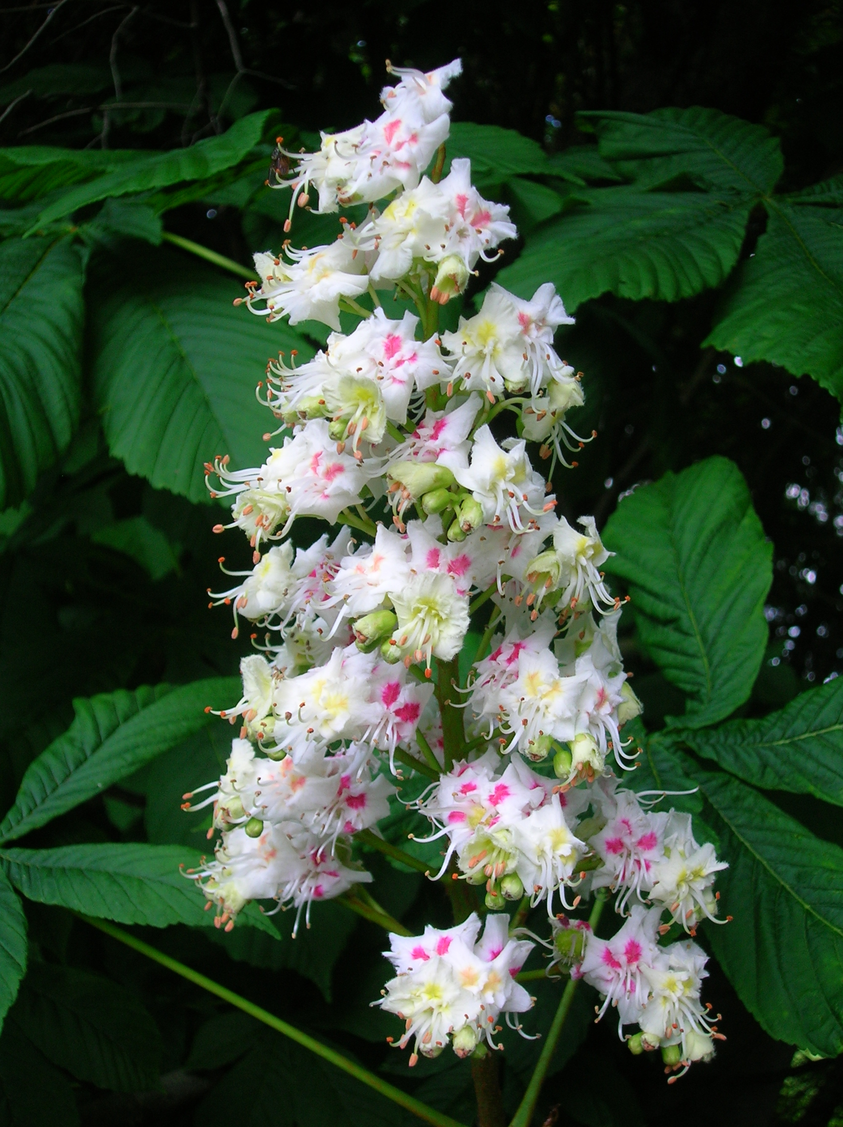 Horse Chestnut (Aesculus hippocastanum) flowers, Eglinton, Irvine, Ayrshire